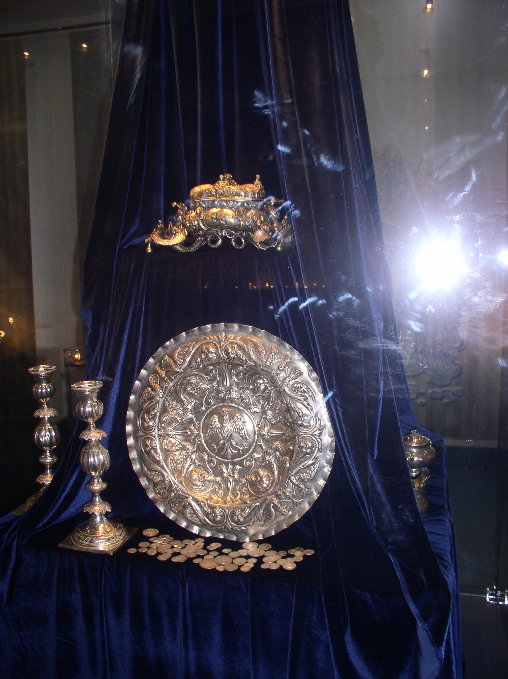 Silver collection. National museum of history and culture of Belarus. Karl Marx street, 12. Minsk, Belarus.